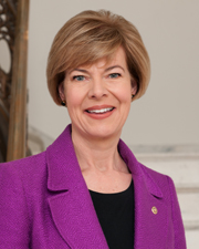 Tammy Baldwin, member of the United States Senate from Wisconsin since 2013.